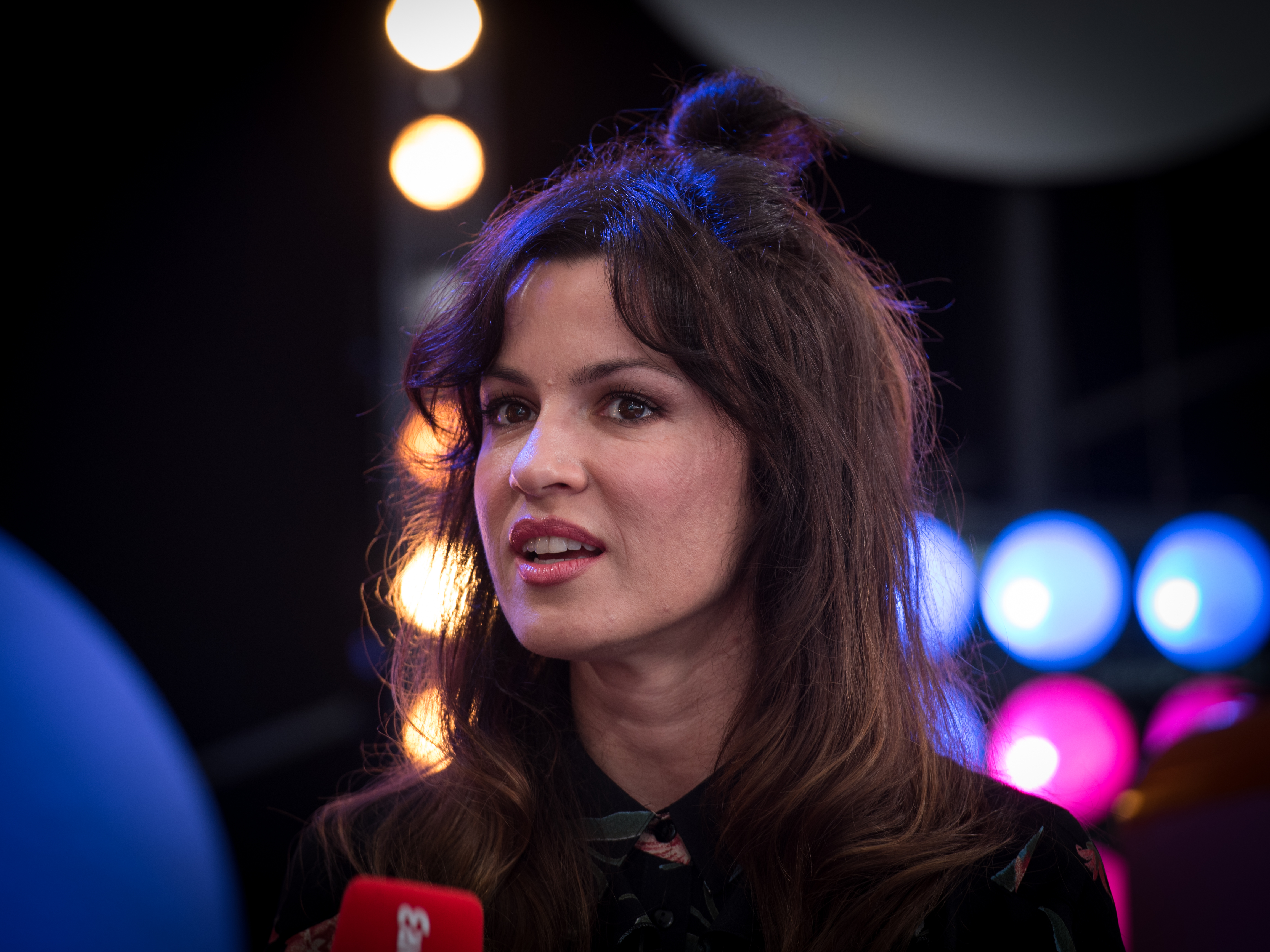 German actress Natalia Avelon at the SWR3 New Pop Festival 2017